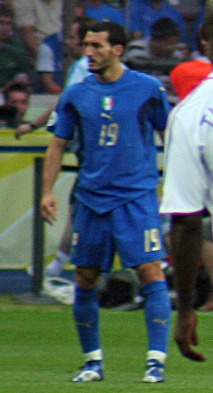 Italy vs France, FIFA World Cup 2006 final, italian defender Gianluca Zambrotta.